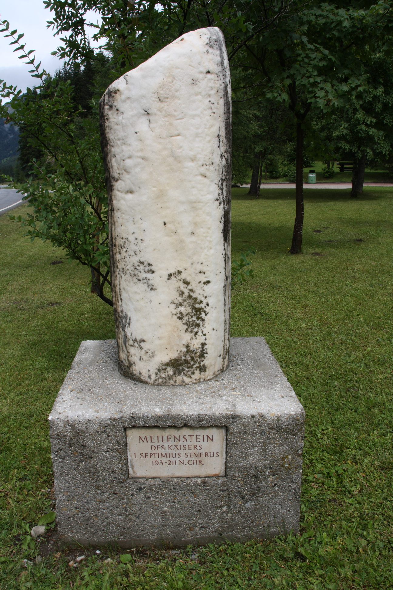 Roman milestone of emperor L. Septimius Severus (193-211) on south ramp of mountain pass "Radstädter Tauernpass"